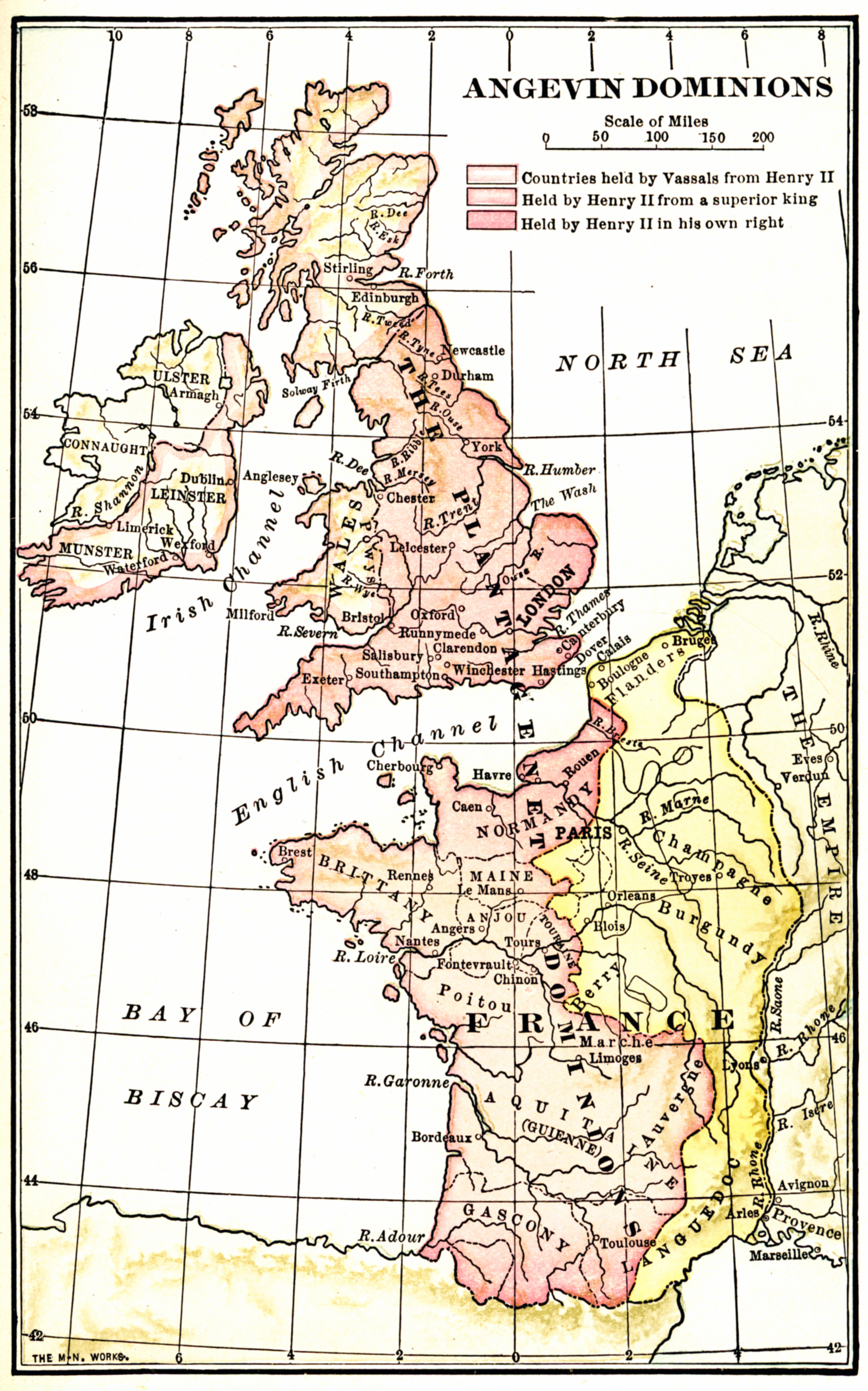 Map of Angevin domain held by King Henry II of England